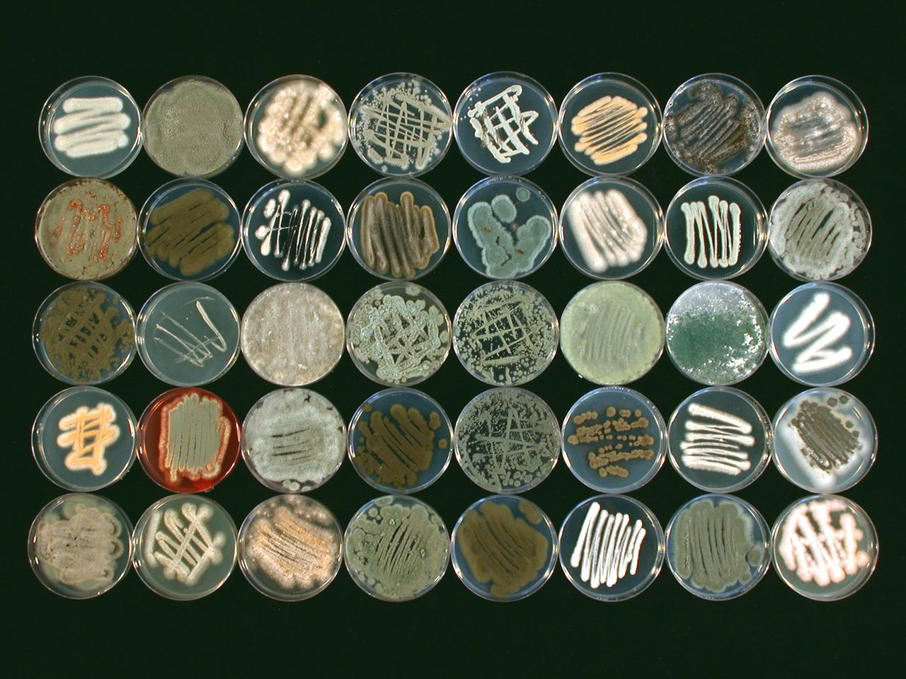 Morphological diversity of fungi collected from a biotic host. Fungal collection isolated from a marine sponge, Ircinia variabilis (formerly Psammocinia sp.). For details, see: Paz, Z., Komon-Zelazowska, M., Druzhinina, I.S., Aveskamp, M.M., Shnaiderman, A., Aluma, Y., Carmeli, S., Ilan, M. and Yarden, O. (2010) "Diversity and potential antifungal properties of fungi associated with a Mediterranean sponge". Fungal Diversity, 42(1): 17-26.